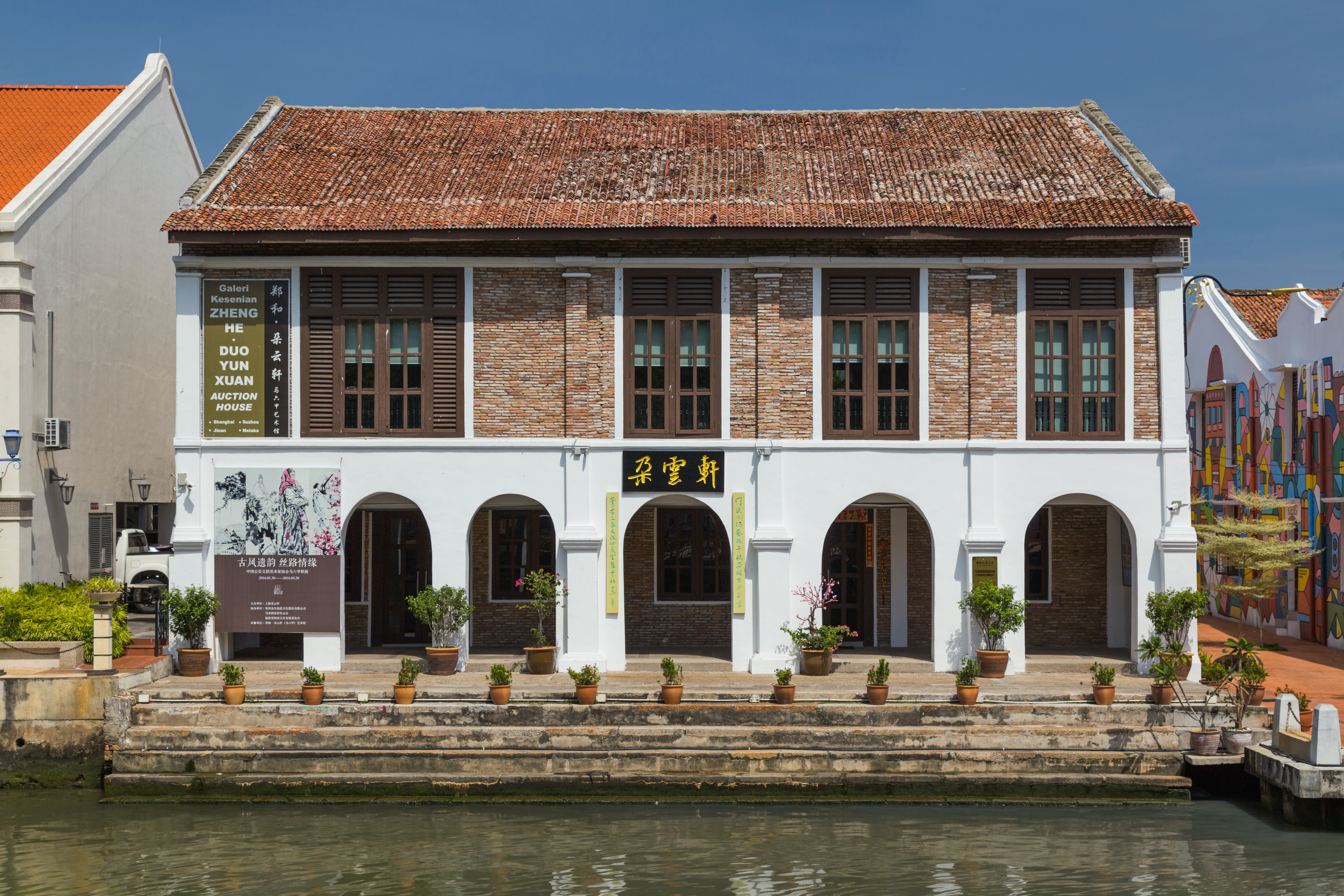 Buildings on the Malacca River - Duo Yun Xuan Auction House. Malacca City, Malacca, Malaysia.